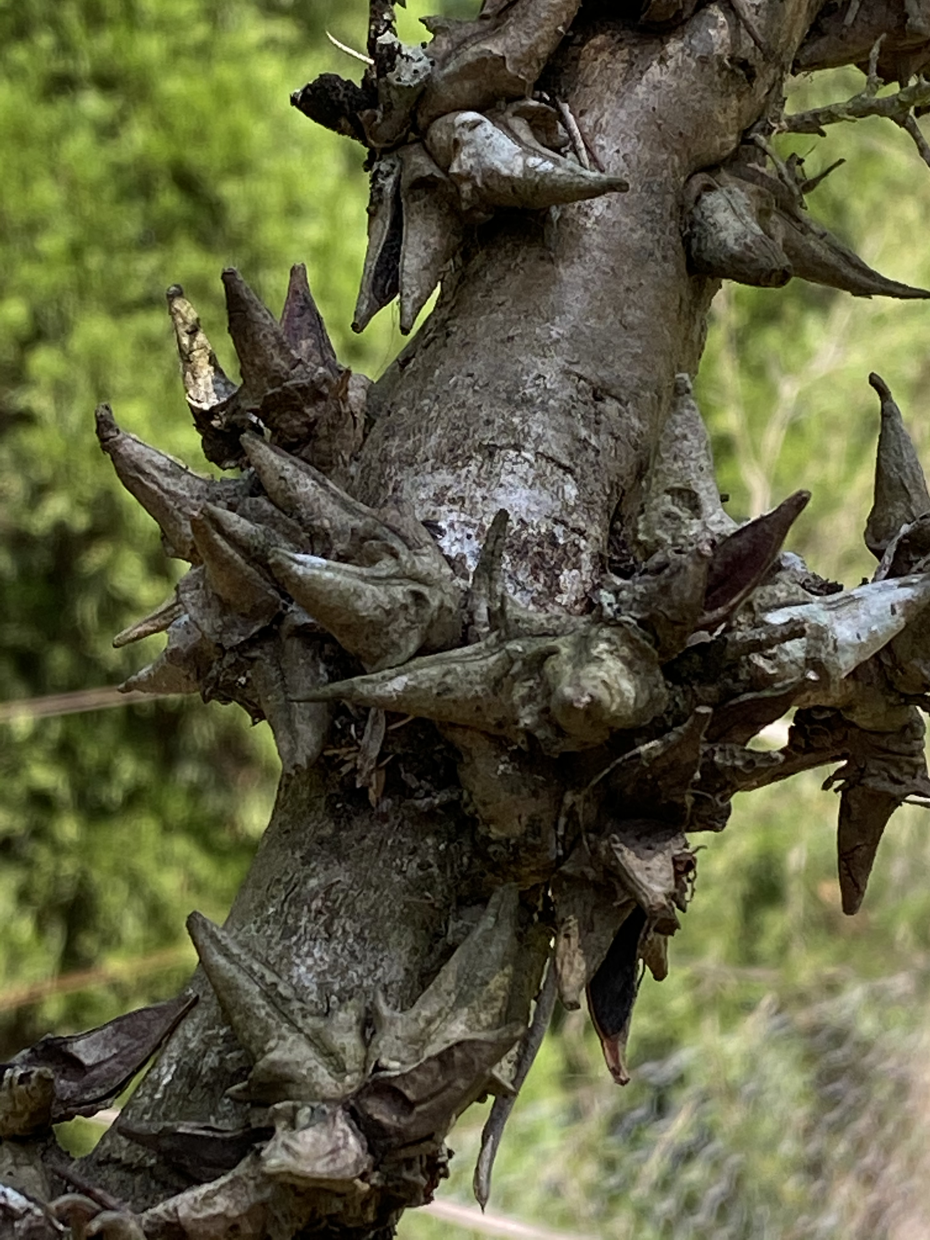 Hakea teretifolia subsp. hirsuta fruit